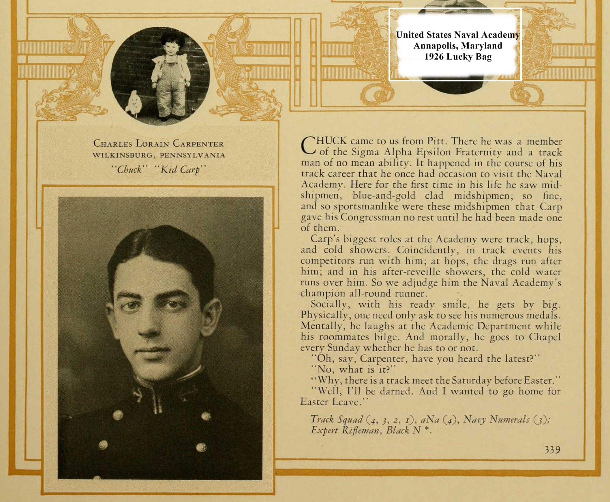 Midshipman Charles L. Carpenter biography entry in the United States Naval Academy 1926 Lucky Bag